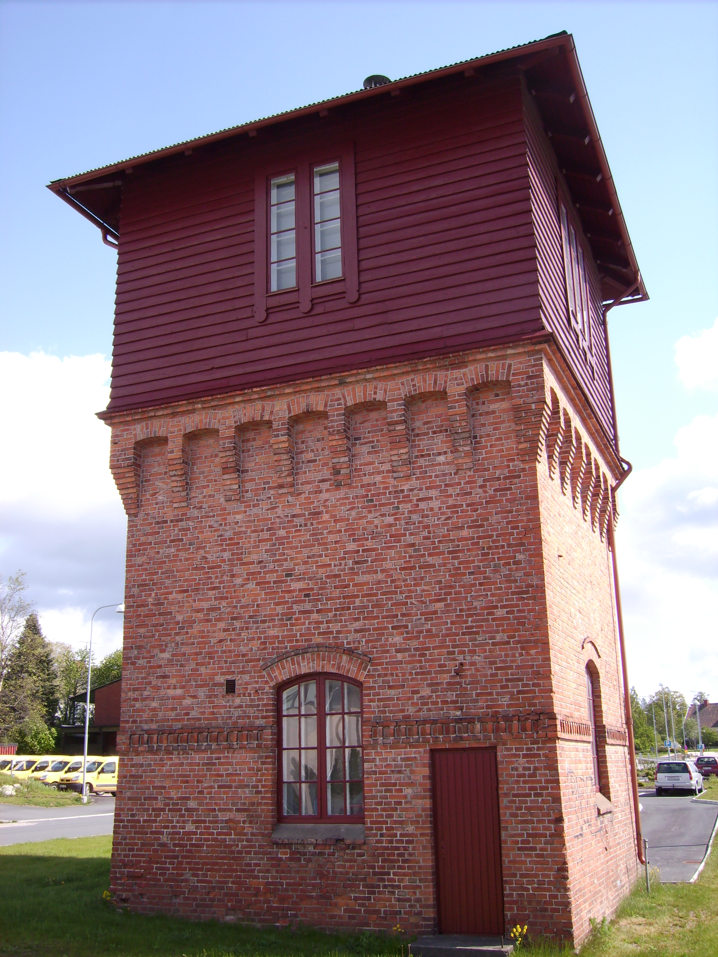 The railway station in the municipality Mullsjö in Sweden.